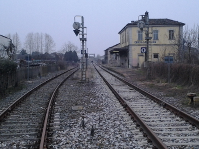 Candia railway station